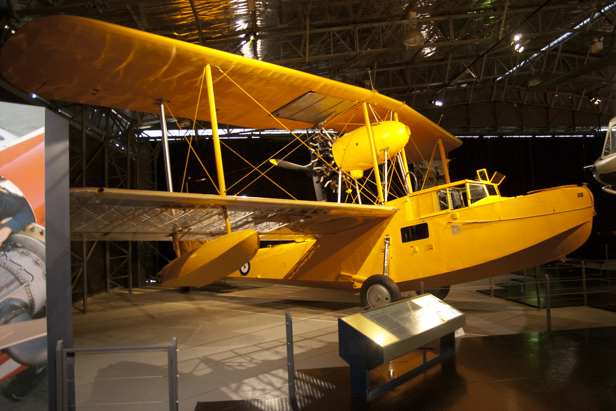 Supermarine Walrus HD 874 on display at the RAAF Museum.